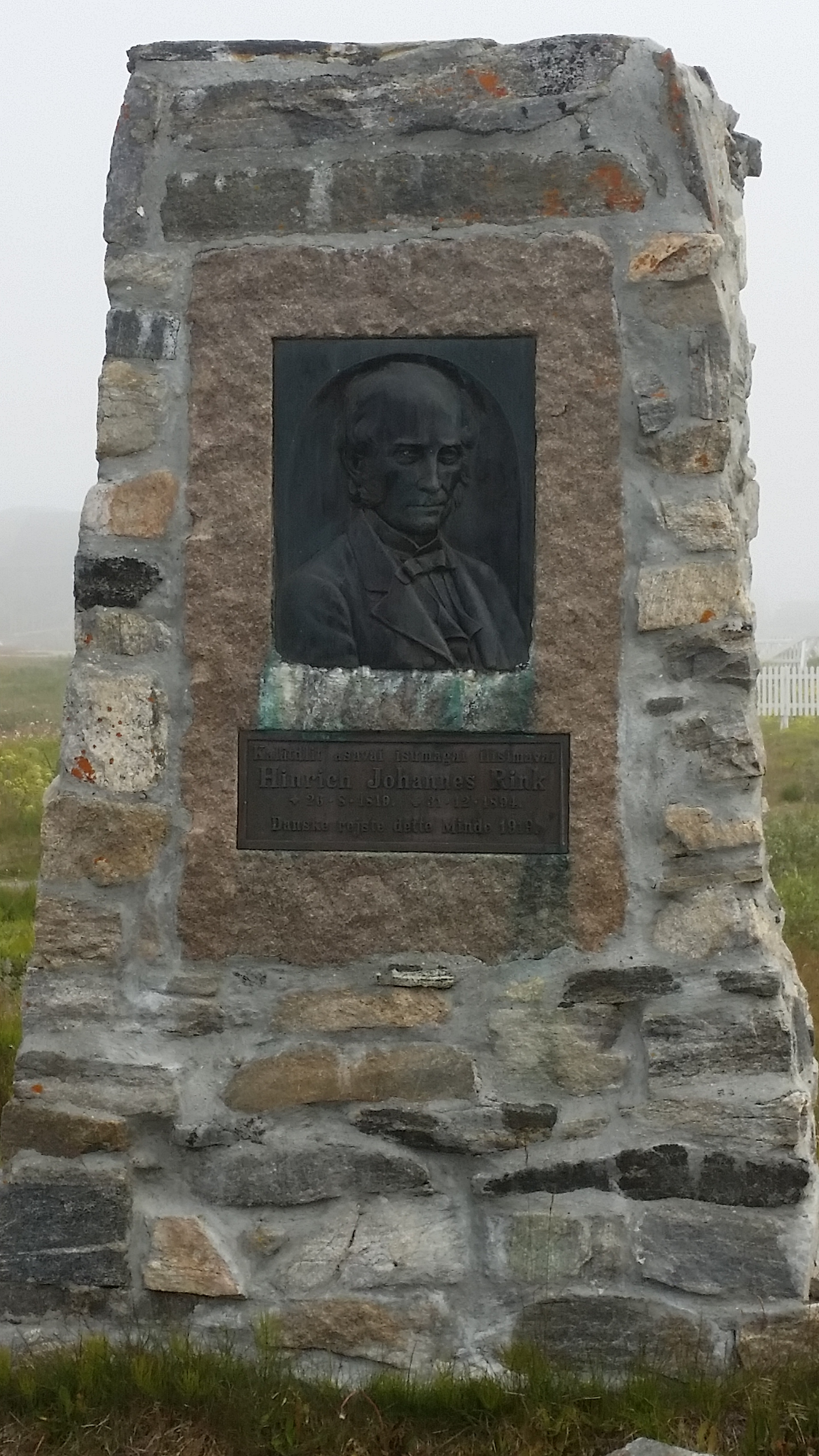 Monument to Hinrich Johannes Rink in Nuuk.